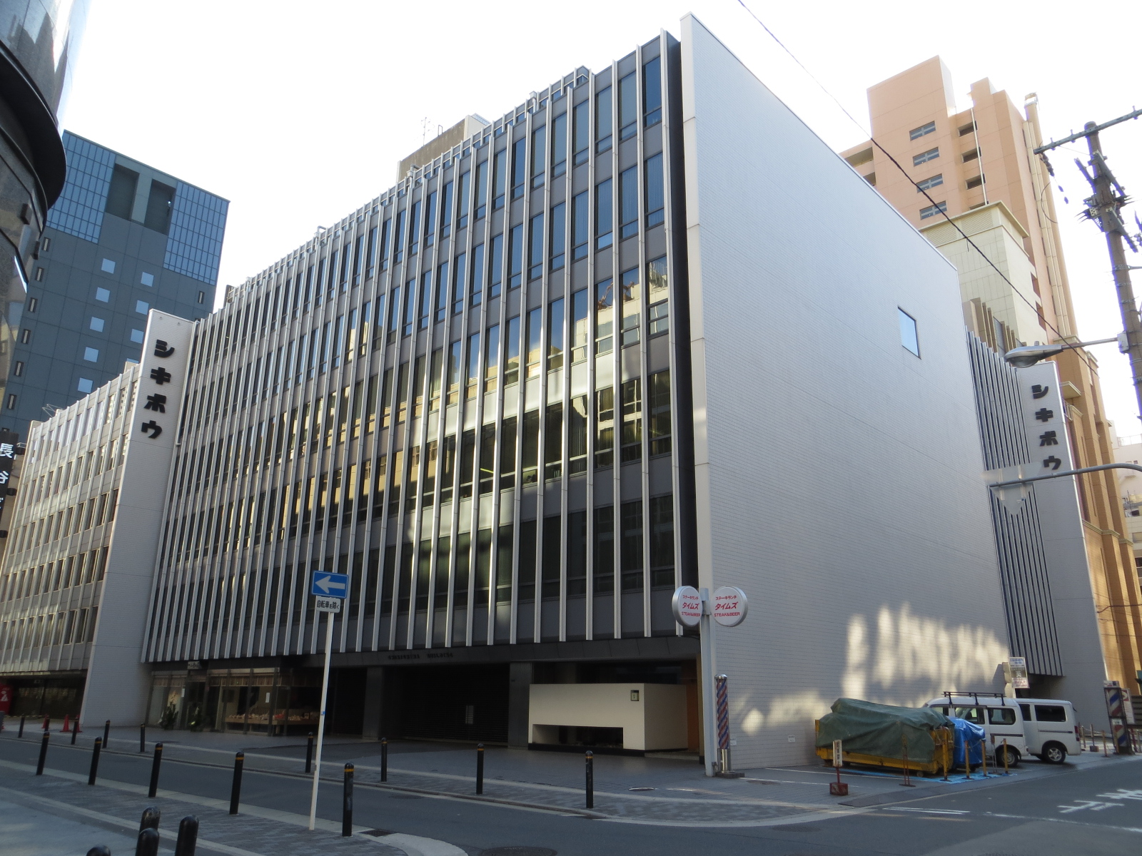 Shikishima Building (Headquarter of Shikibo and Shinnaigai Textile)